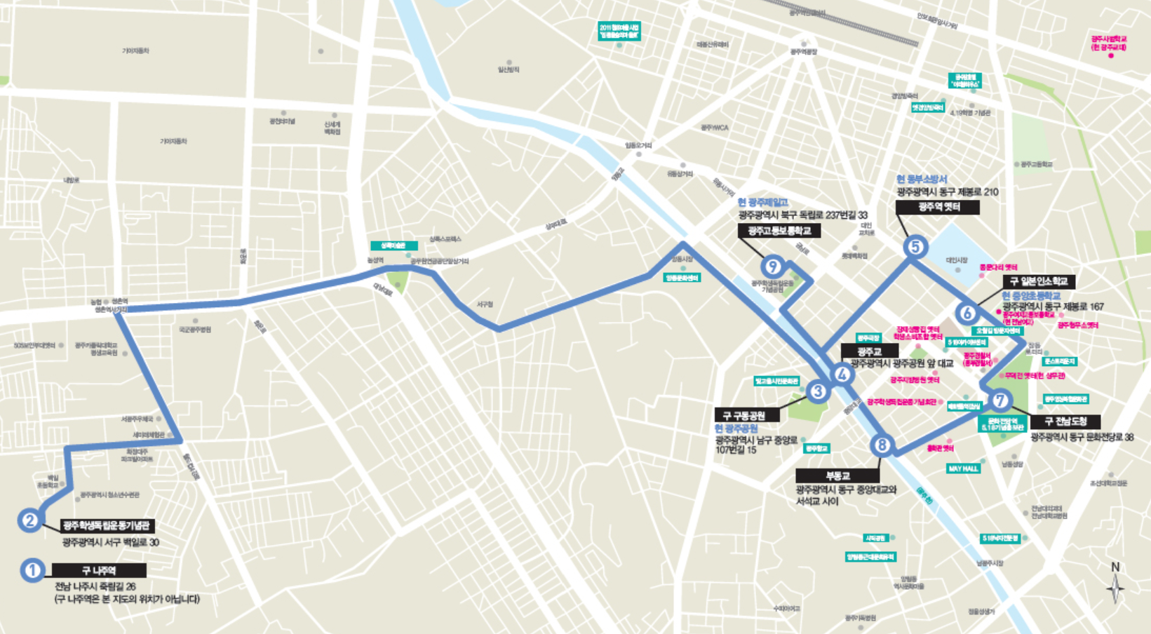 This is the map to be described about 'GwangjuStudentIndependenceMovement'